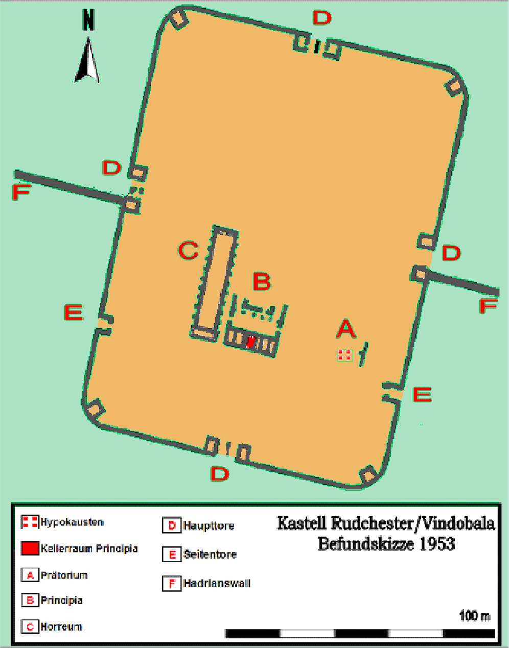 Plan Castle Rochester / Vindobona on Hadrian's Wall (1953)